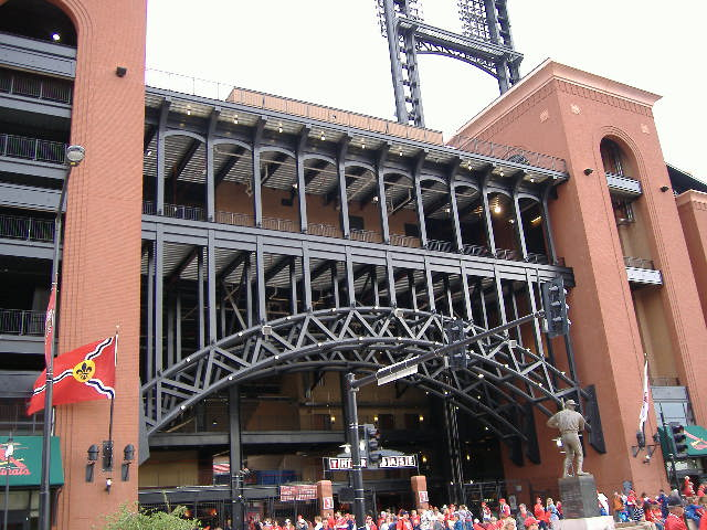 The New Busch Stadium in St. Louis, Missouri 00:17, 22 May 2007 . . Shane52sk . . 640×480 (86 KB)